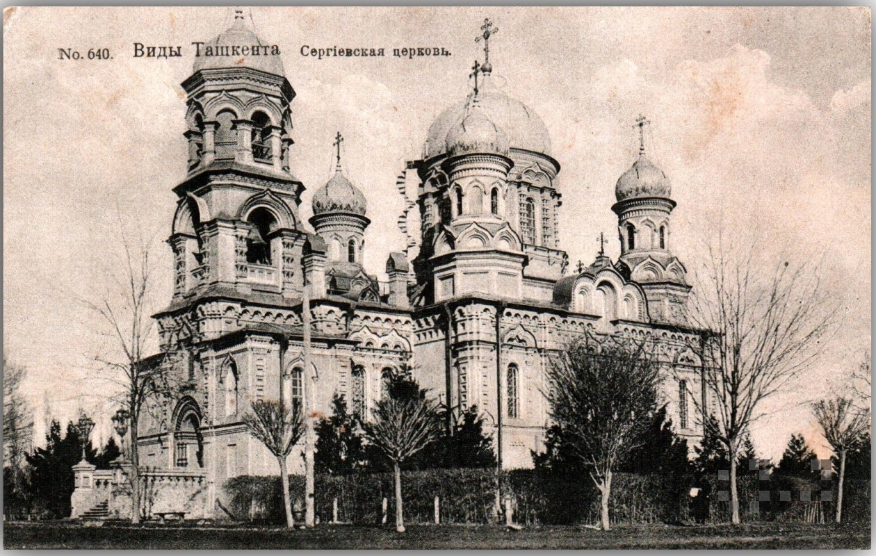 Church St. Sergiy Radonezhckogo in Tashkent. View from the south. Post card publishers E. Hlubny. 1907-1917 years.